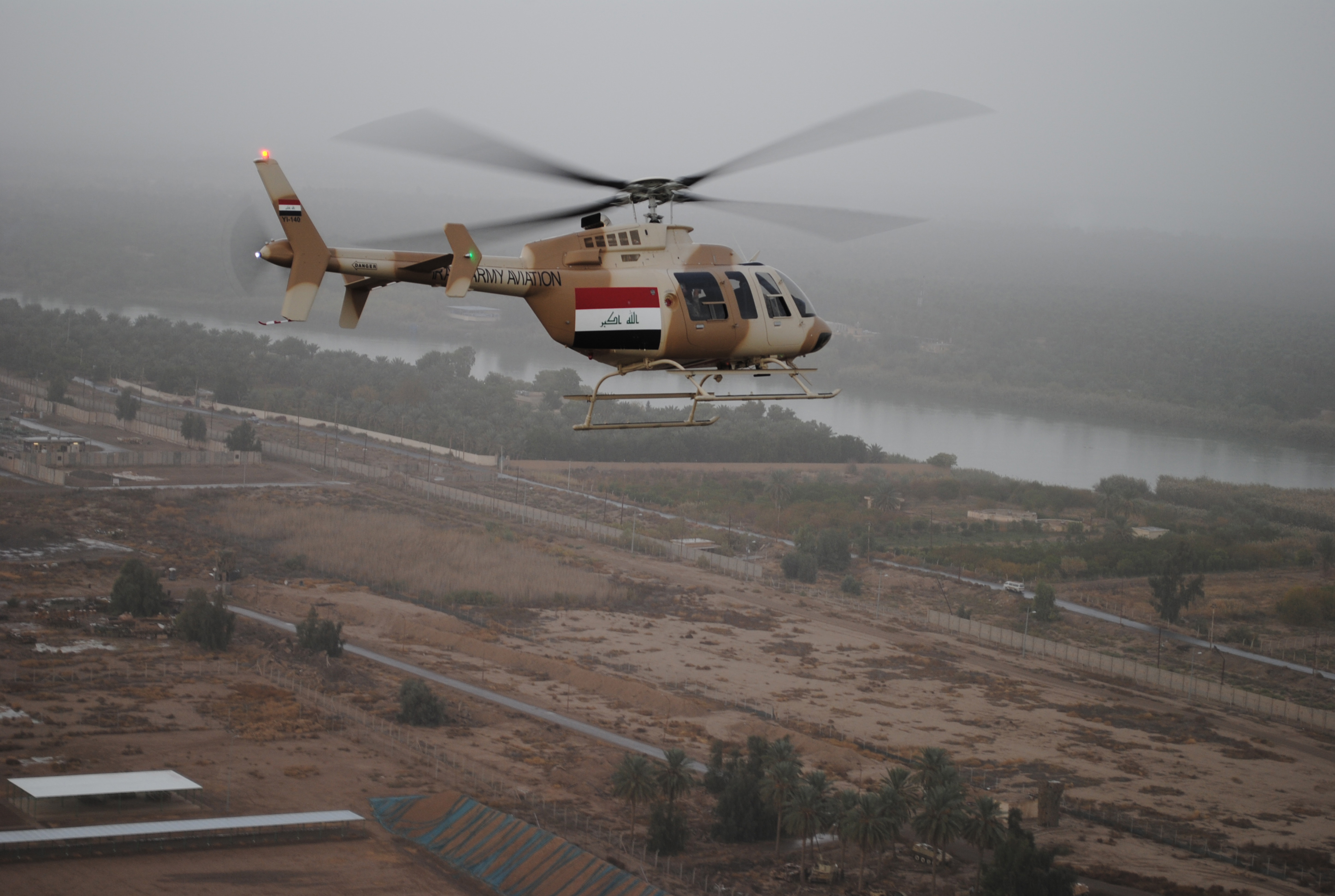 Army Chief Warrant Officer Robert Grosnick, pilot, program executive office aviation, Redstone Arsenal, Ala., operates one of the T407s, recently, during the first test flight for the helicopters over Northern Iraq. The training helicopters will help train qualified Iraqi army pilots to operate and maintain the Iraqi 407 Armed Scout Helicopters which are scheduled to be fielded by the end of 2011. 10th Public Affairs Operations Center Photo by Spc. Amie McMillan Location:BAGHDAD, IQ Date Taken:12.12.2010 Related Photos